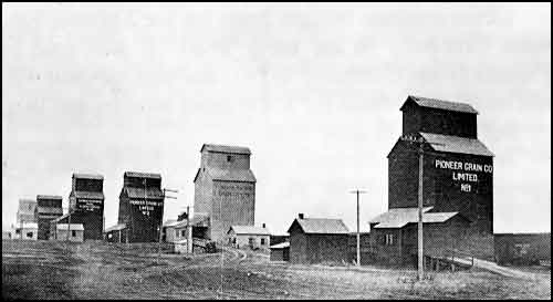 Scotsguard, Saskatchewan's six grain elevators 1920 now demolished.